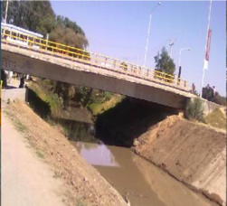 Puente vehicular